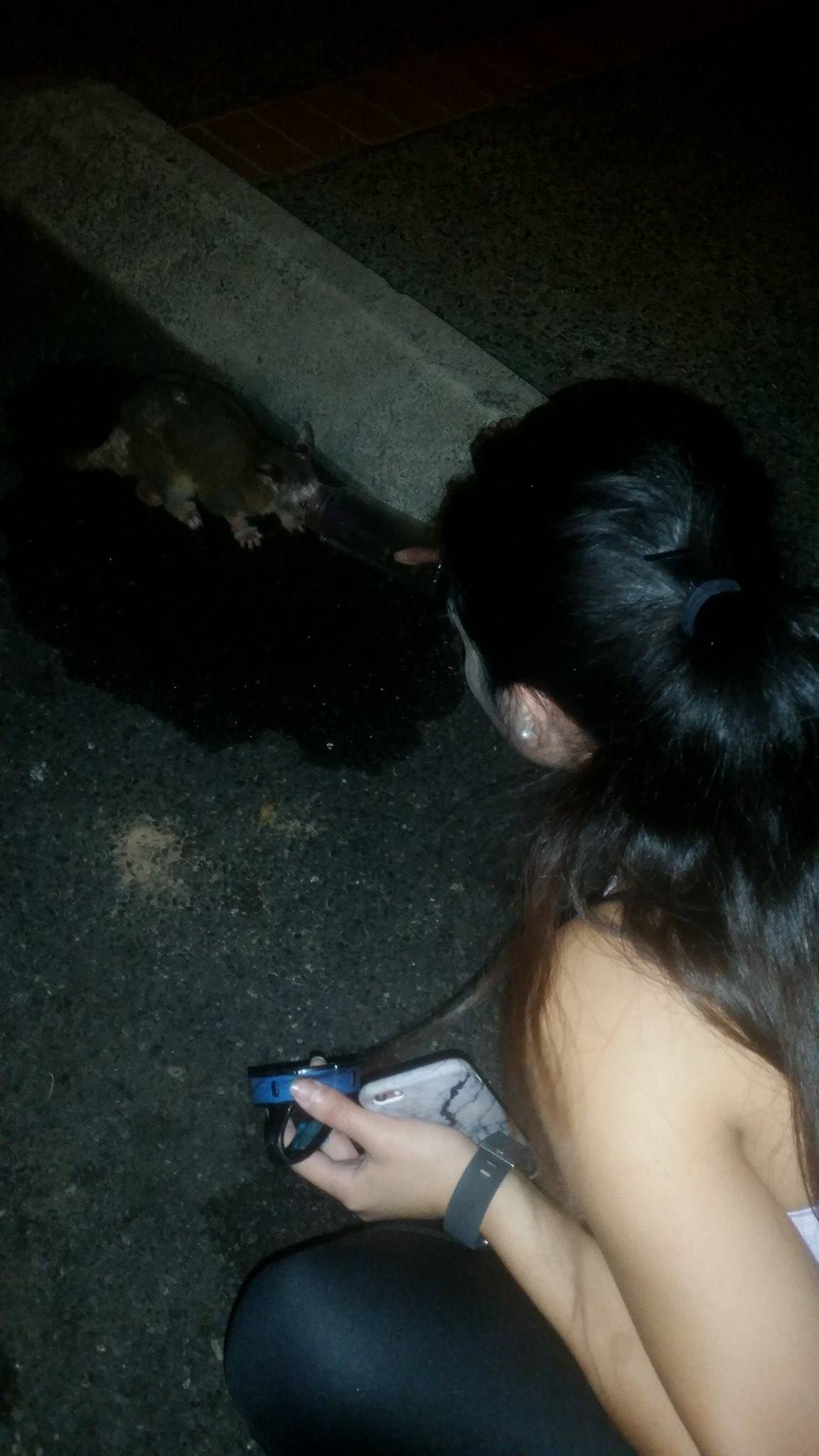 Helpful girl assisting a sick (but friendly) possum to a drink of water